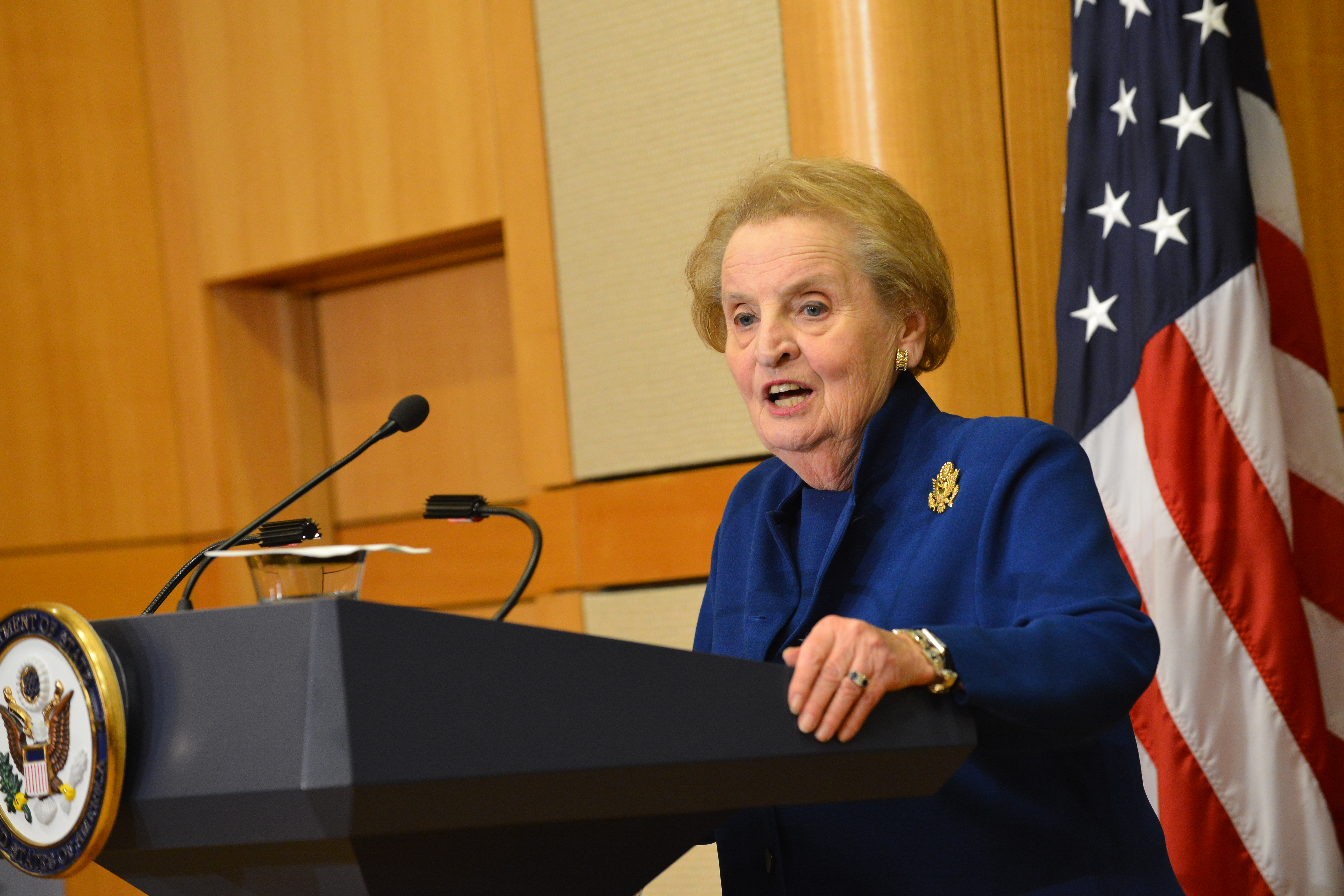 Former Secretary of State Madeleine K. Albright delivers remarks with Secretary of State John Kerry and former Secretaries of State Henry A. Kissinger, James A. Baker, III, Colin L. Powell, and Hillary Rodham Clinton at the Groundbreaking Ceremony of the U.S. Diplomacy Center at the U.S. Department of State in Washington, DC on September 3, 2014. [State Department photo/ Public Domain]